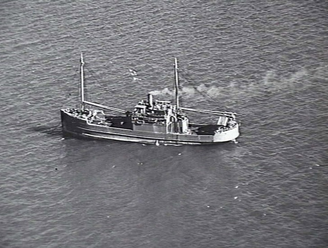 Aerial port side view of the American cargo vessel Esther Johnson. (Naval Historical Collection) "Australian War Memorial notice: Copyright expired - public domain—This term describes material held in the National Collection that is clearly out of the period of copyright protection. Material that has passed out of the period of copyright protection is known as being in the “public domain” and is free of known copyright restrictions."